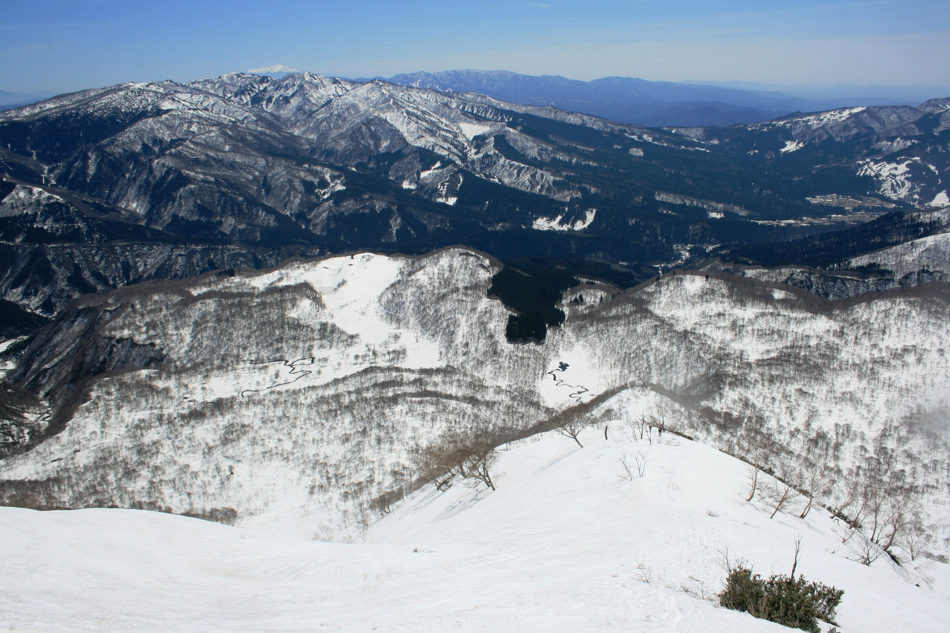 Mount Dainichi seen from Mount Nobuse in Ryōhaku Mountains, Japan.